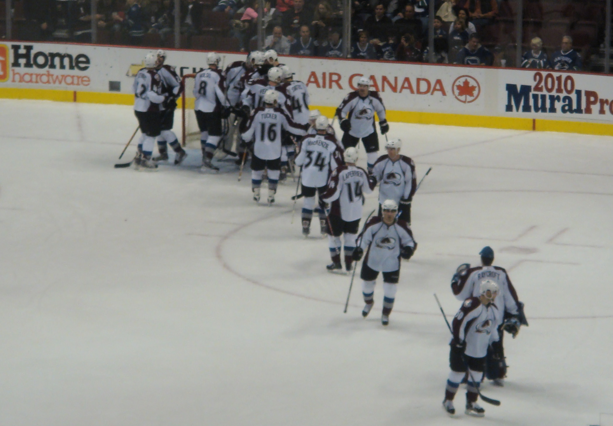 April 5, 2009 : Colorado Avalanche won the game against the Vancouver Canucks